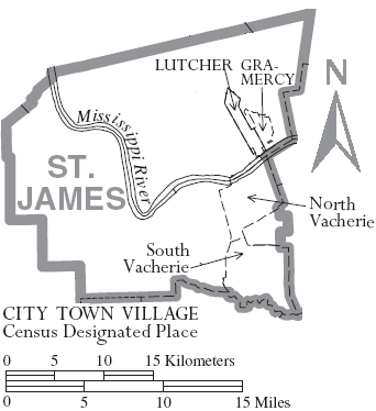 Map of St. James Parish, Louisiana, United States with municipal boundaries